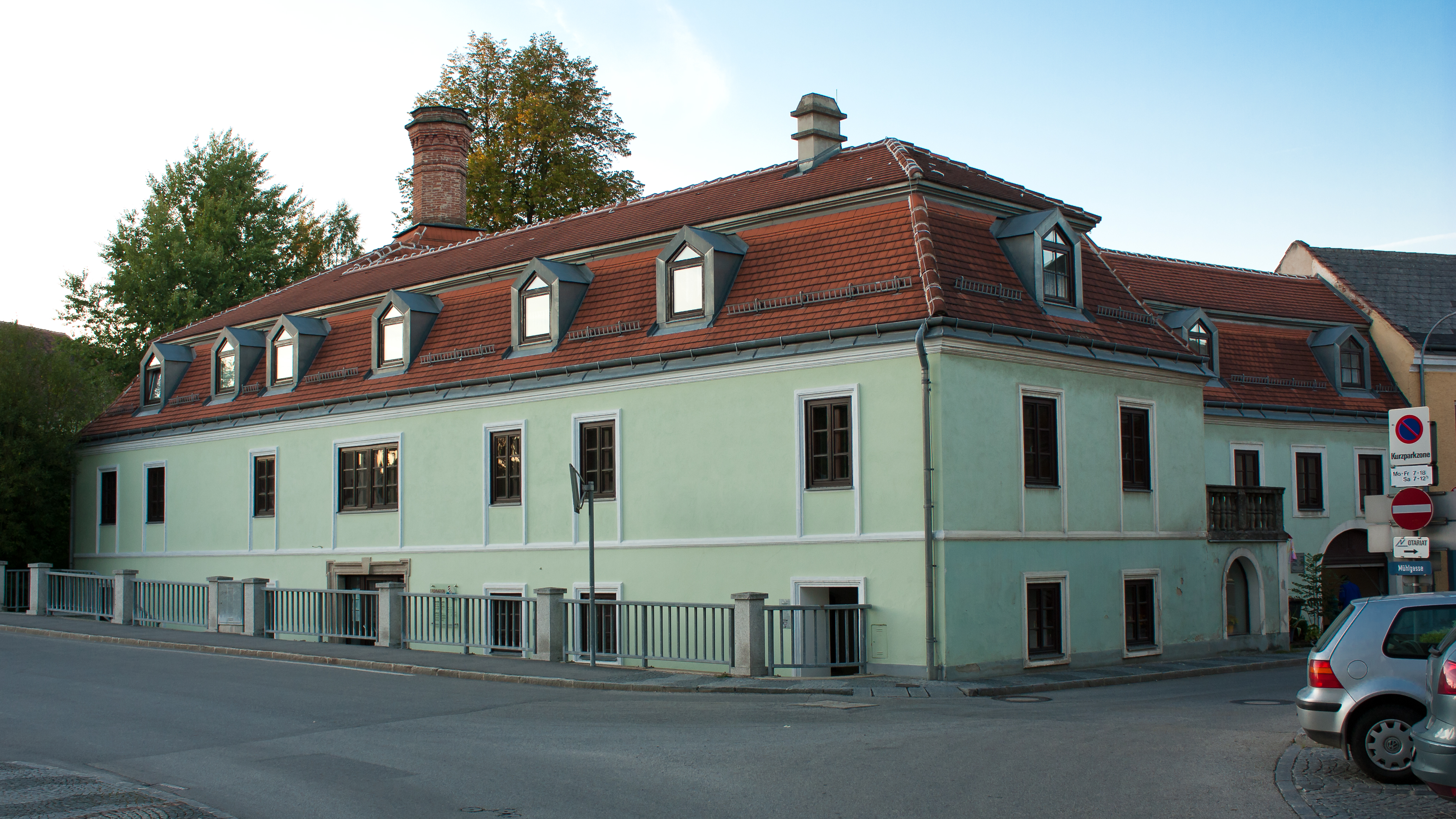 former brewery in Schrems